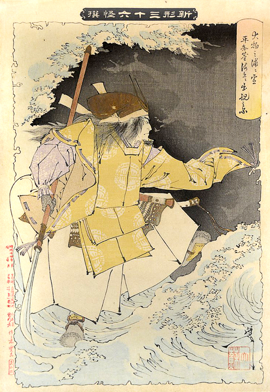 The Ghost of Taira no Tomomori, 1891. The print depicts the ghost of Taira no Tomomori appearing at Daimotsu Bay. From the Thirty-six Ghosts series. 9.25" x 14.25".